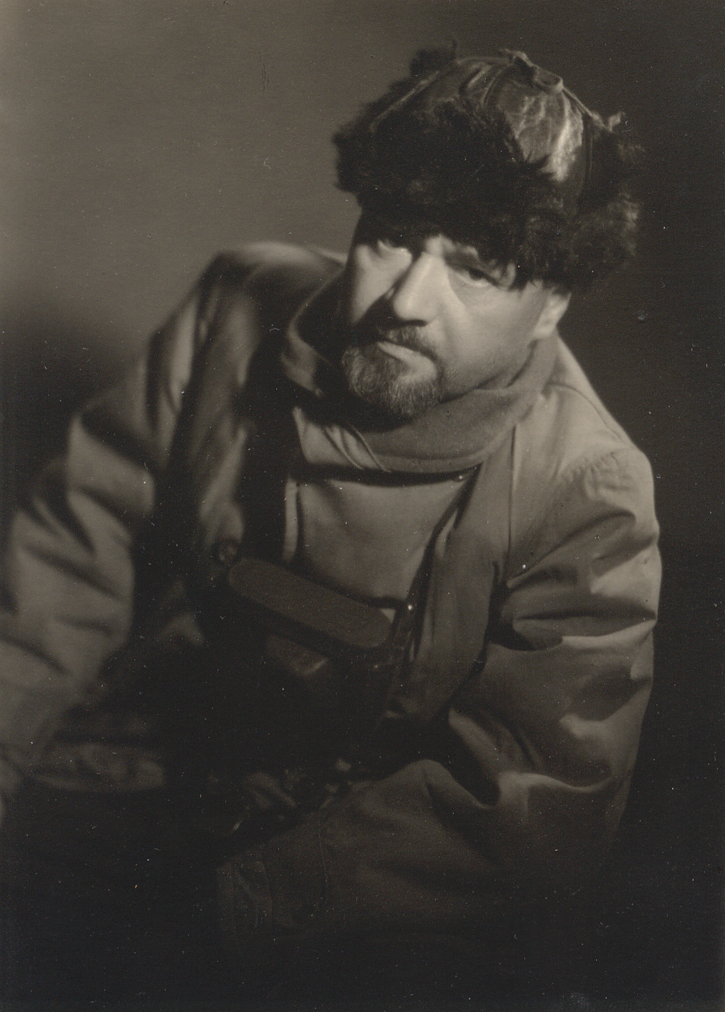 Stefan Zbigniew Różycki back from the second expedition to Spitsbergen in August 1958